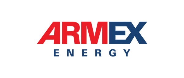 ARMEX ENERGY a.s. logo